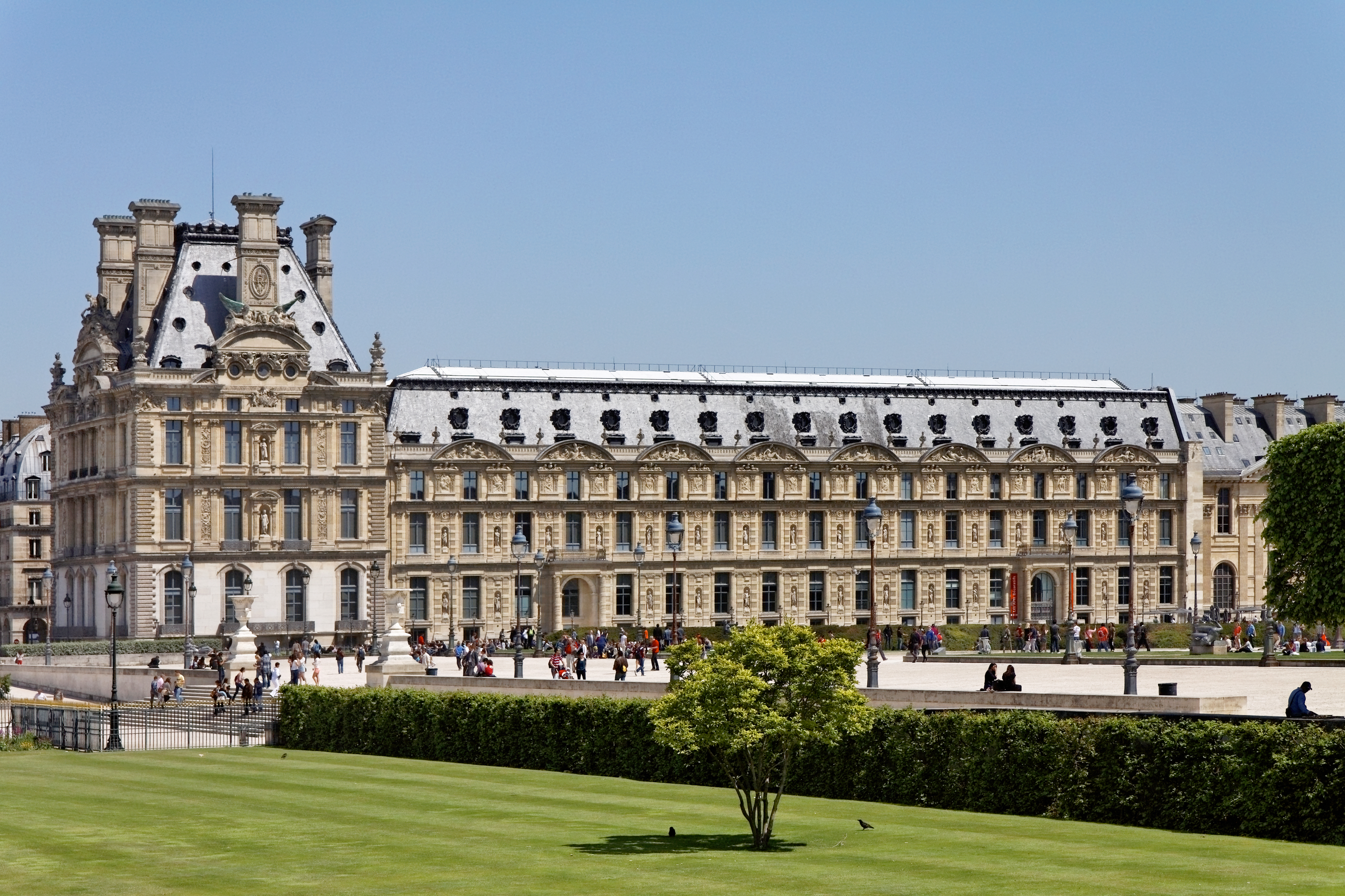 Marsan Wing, Louvre Museum, Paris, France.